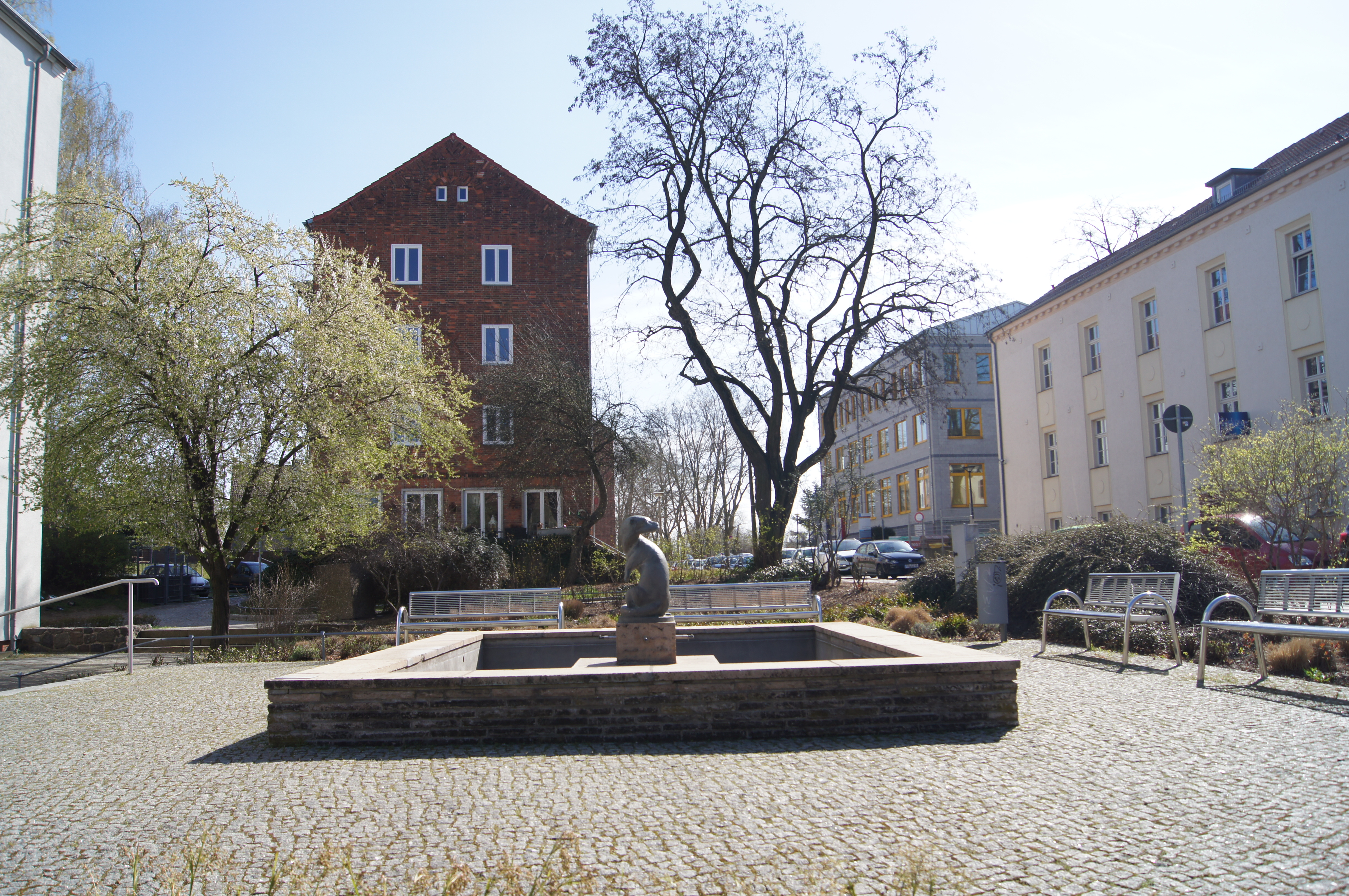 Otter fountain Frankfurt (Oder), Brandenburg, Germany